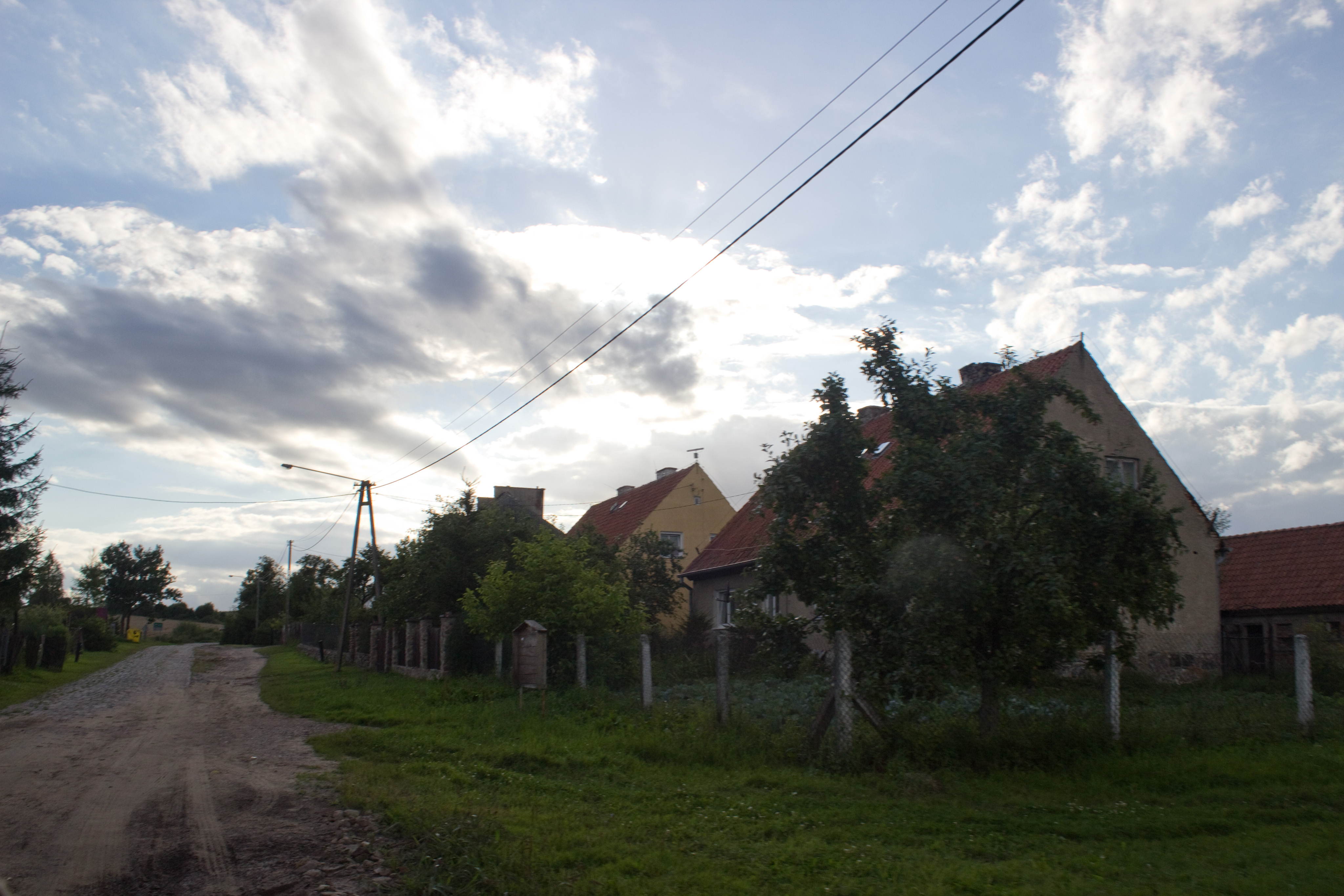 Starynia, gmina Korsze, powiat kętrzyński, Warmian-Masurian Voivodeship